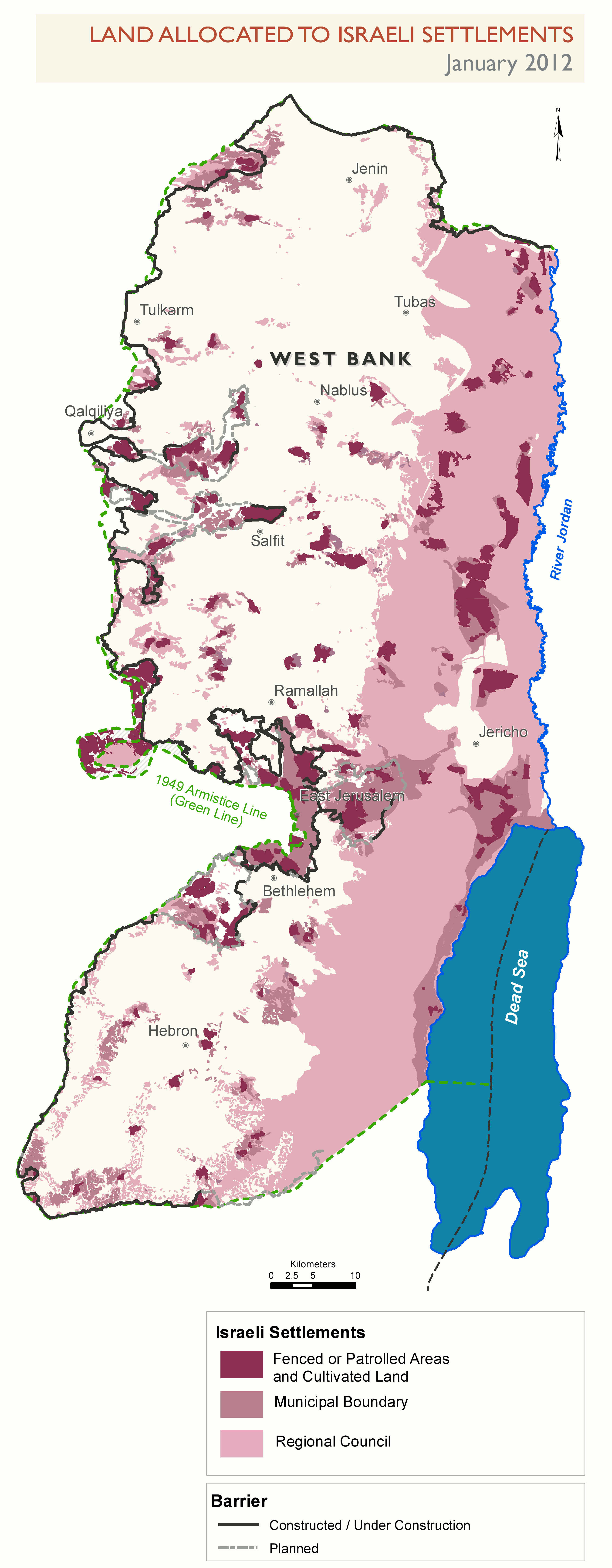 Parts of Area C of the West Bank allocated to the Israeli settlements, as of January 2012. No access for Palestinians, in principle.